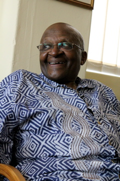 Archbishop Emeritus Desmond Tutu turned 80 on 7 October 2011. The Archbishop has been the Patron and key spokesperson for the Australian Government’s Australia Awards in Africa since 2010.